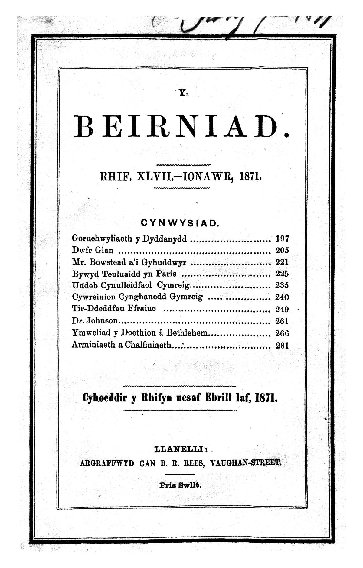 A quarterly Welsh language literary periodical that published articles on literature, science, politics, education and theology. The periodical was initially jointly edited by the Congregationalist minister John Davies (1823-1874) and the Brecon Congregational College tutor, William Roberts (1828-1872), by Davies between 1872 and 1874, and following his death by the Congregationalist minister, John Bowen Jones (1829-1905). Associated titles: Yr Adolygydd (1850-1852).